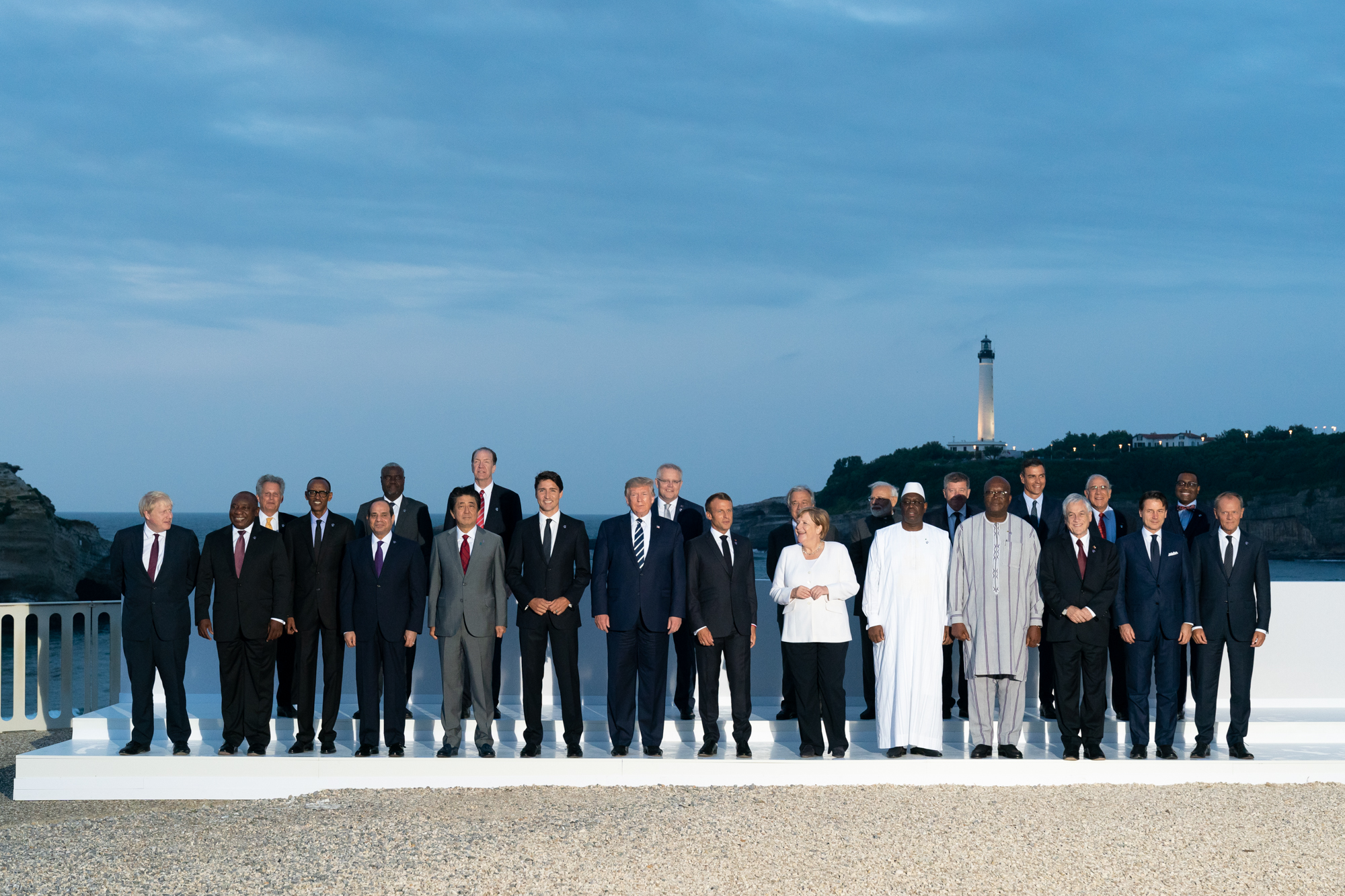 President Donald J. Trump joins the G7 Leadership and Extended G7 members as they pose for the “family photo” at the G7 Extended Partners Program Sunday evening, Aug. 25, 2019, at the Hotel du Palais Biarritz, site of the G7 Summit in Biarritz, France. (Official White House Photo by Andrea Hanks)